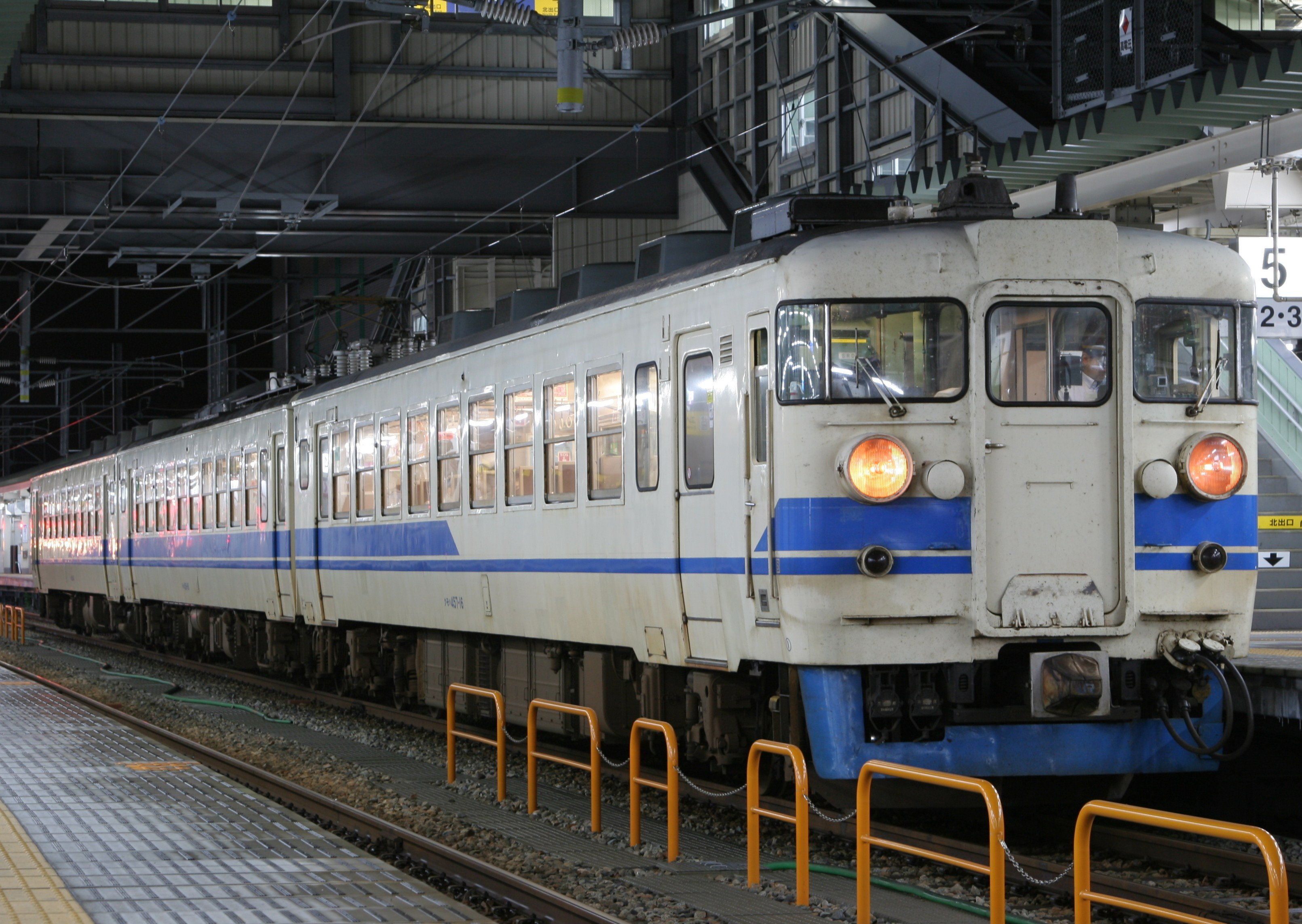 JR West 455/457 series 3-car EMU set A10